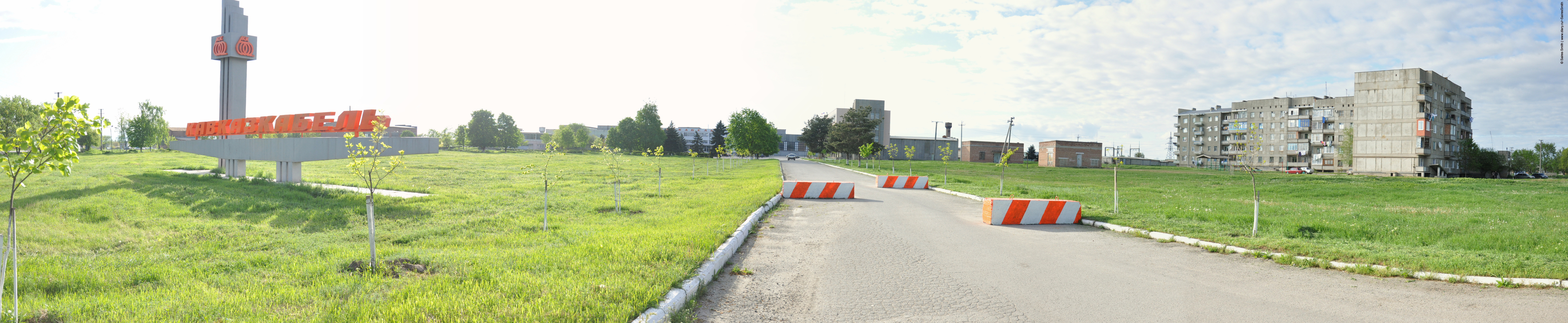 Вид на завод "Кавказкабель"